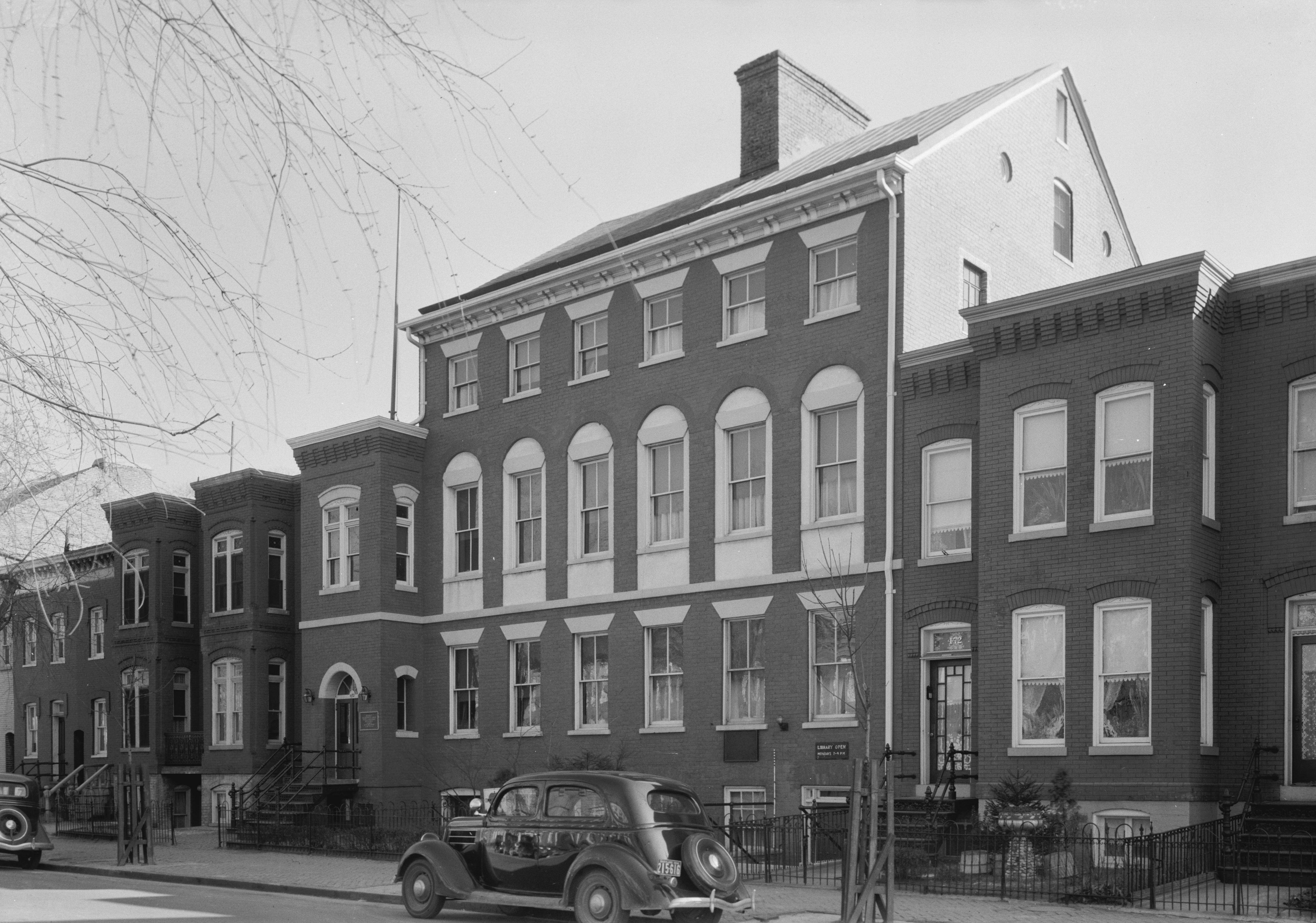 Duncanson-Cranch House on the NRHP since July 26, 1973. At 468-470 N St., SW., Washington, D.C. (Note SW, not NW). Coords approx 38.874664,-77.01828